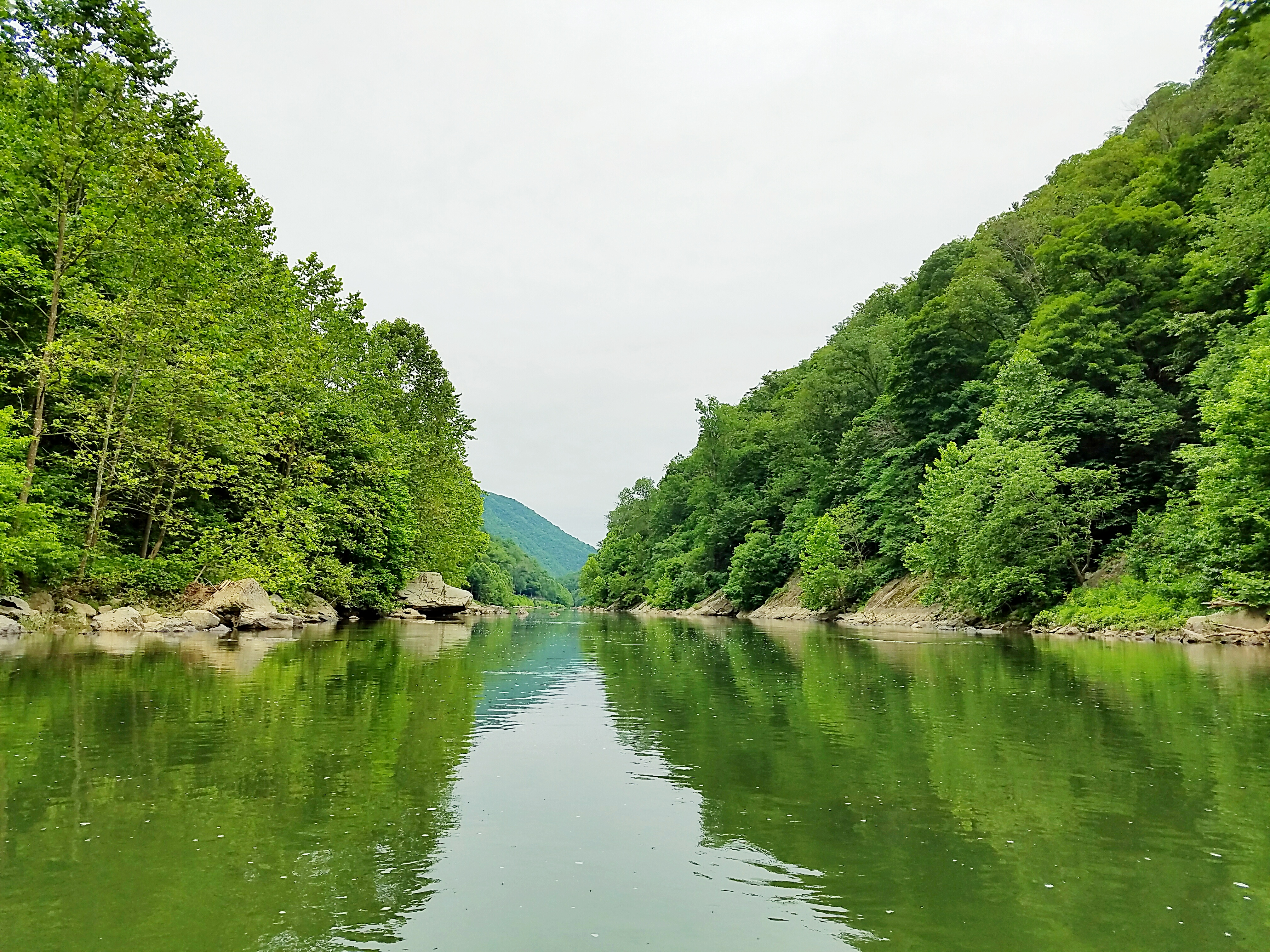 The Trough is a forested gorge through which the South Branch Potomac River flows in the Potomac Highlands of West Virginia. Photographed by Arun Prakash of Washington, D.C. on July 3, 2016.